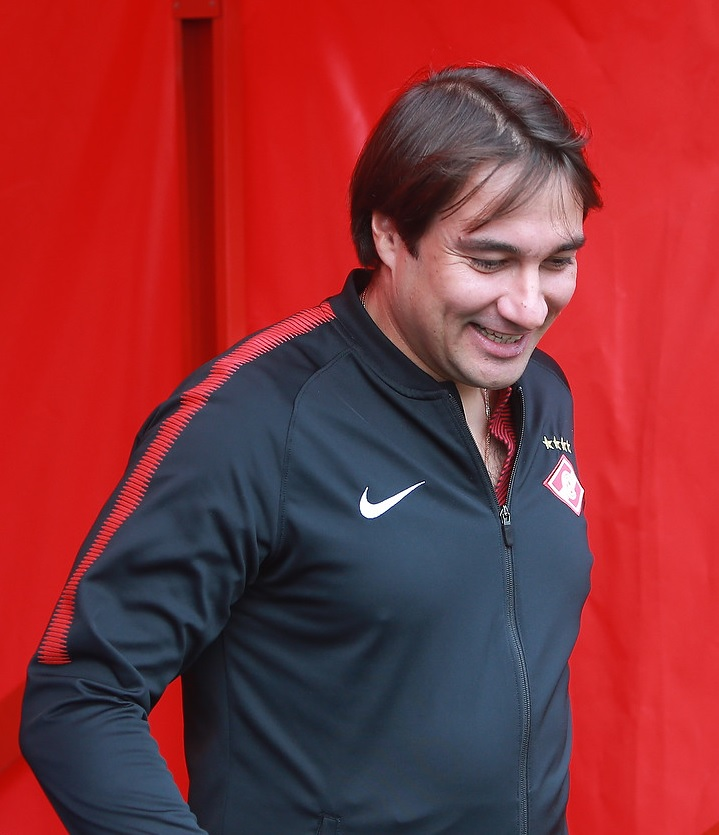 Dmitri Gunko as a manager of FC Spartak-2 Moscow in a game against FC Krylia Sovetov Samara.